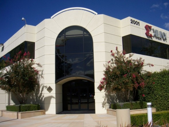 Xilinx HQ at San Jose. This is the picture of one of the buildings there, 2001 Logic Drive, San Jose CA, USA.